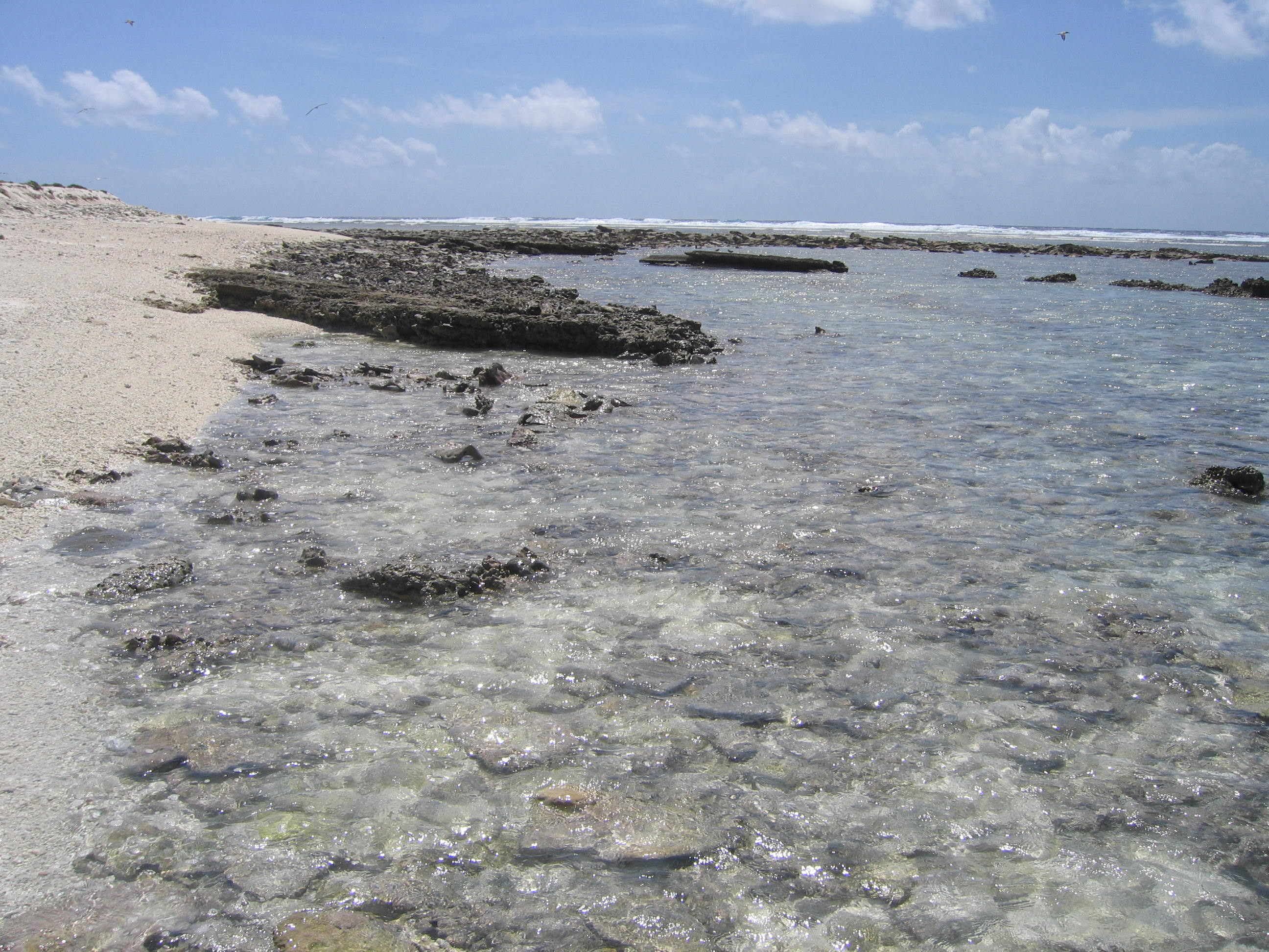 Howland Island, surrounding coral reef (Windward)